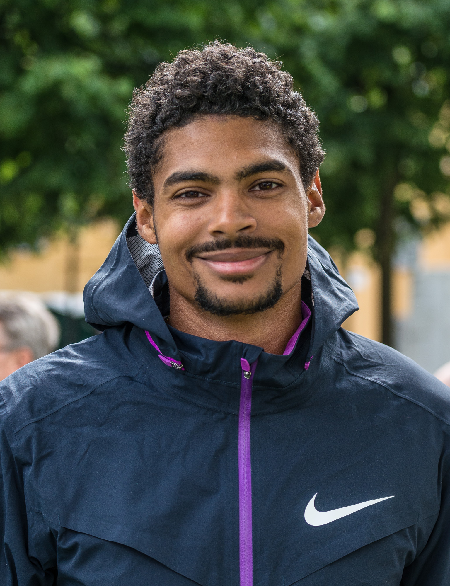 Michel Tornéus in Kungsträdgården in Stockholm in July 2015 at the Bauhaus Athletics Kids day before the IAAF Diamond League-/Bauhaus-Galan at the Stadium.